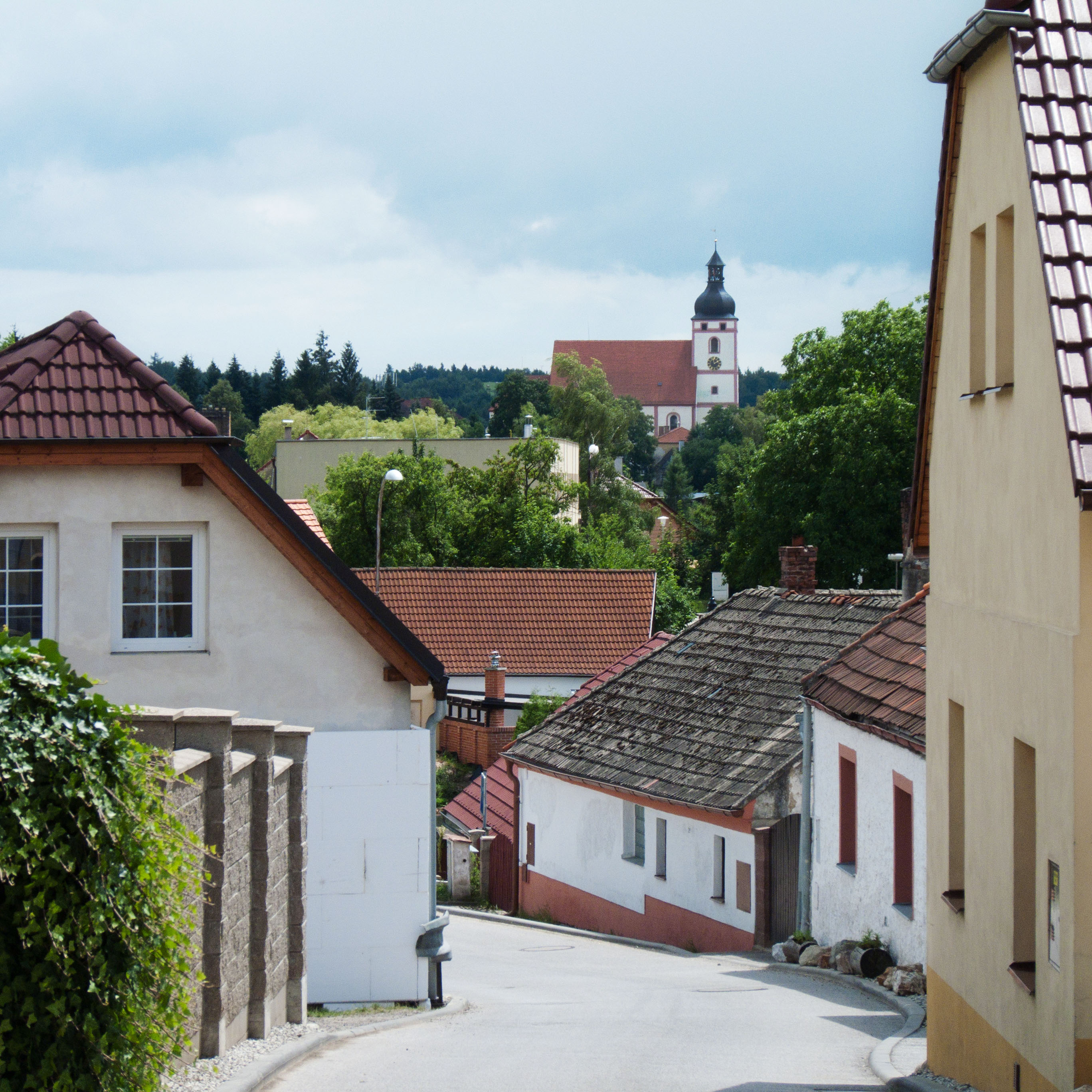 View of the church in Rudolfov from the village of Adamov, České Budějovice District, Czech Republic.